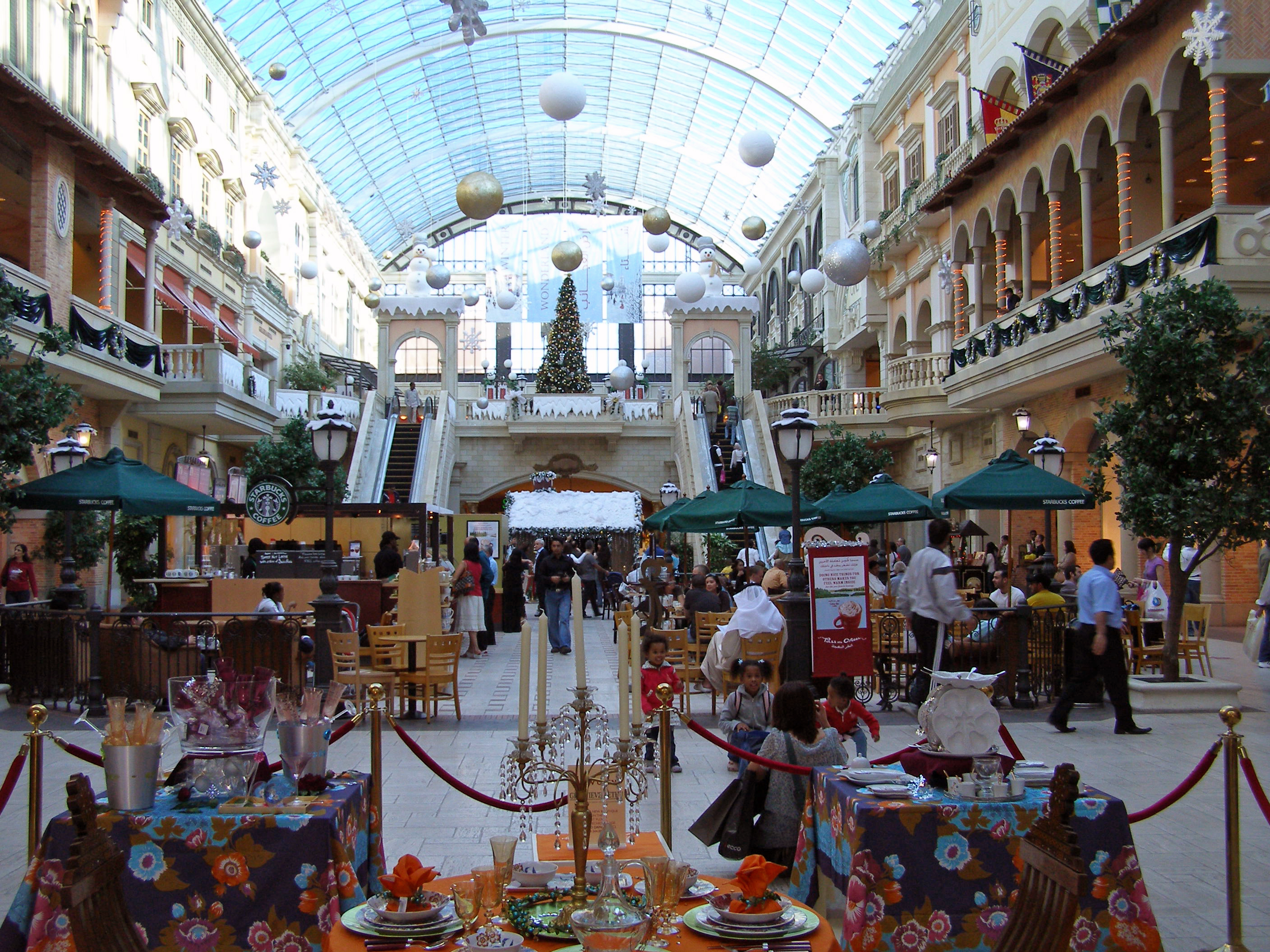 Mercato Mall in Dubai After Christmas